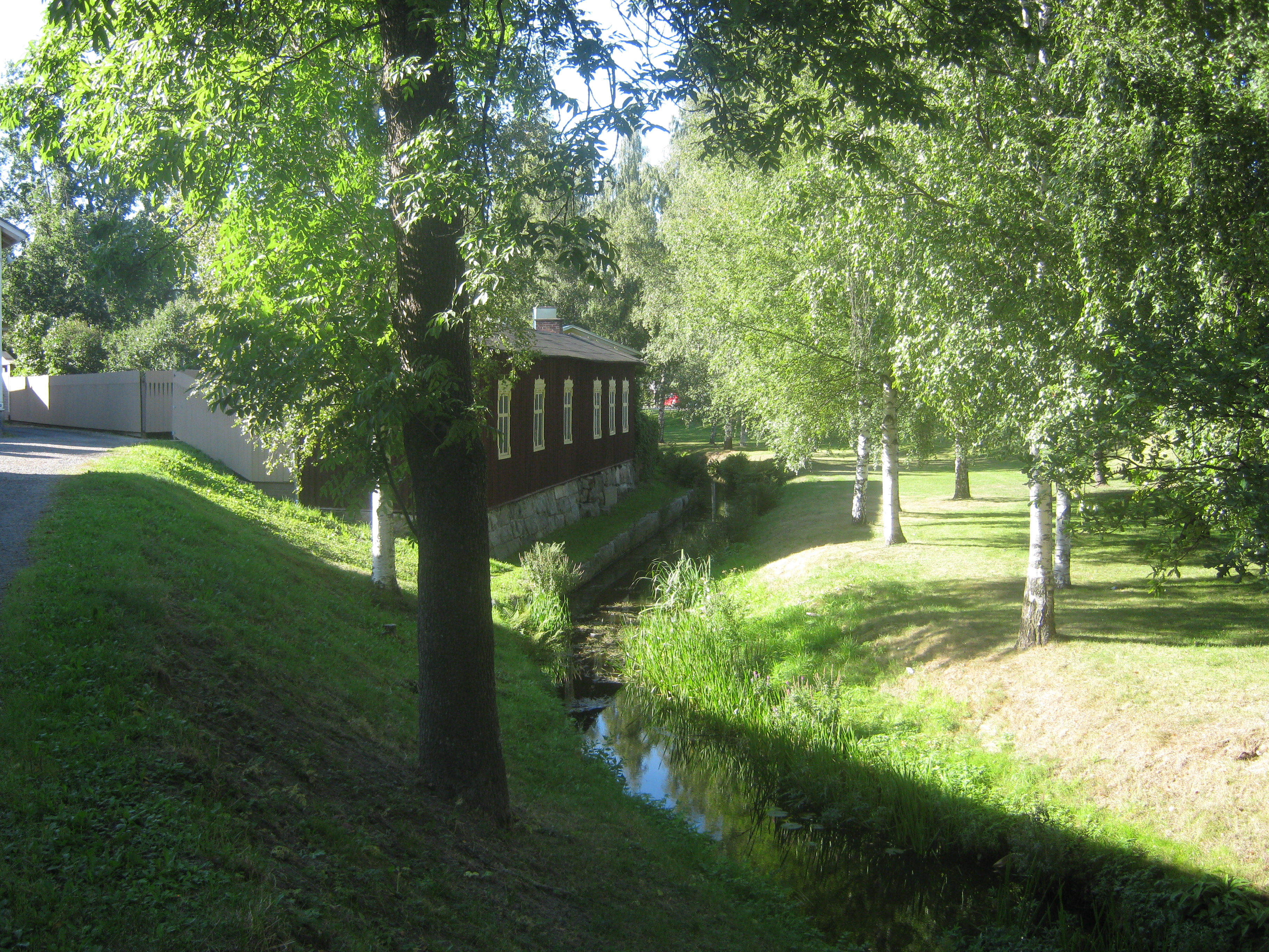 Rauma river at Unesco World heritage site Old Rauma, Finland.